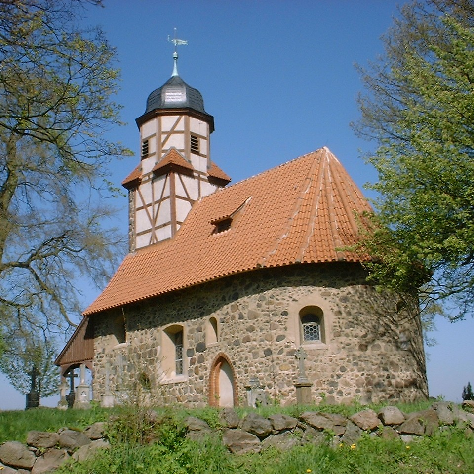 Church in Garrey-Zixdorf in Brandenburg, Germany